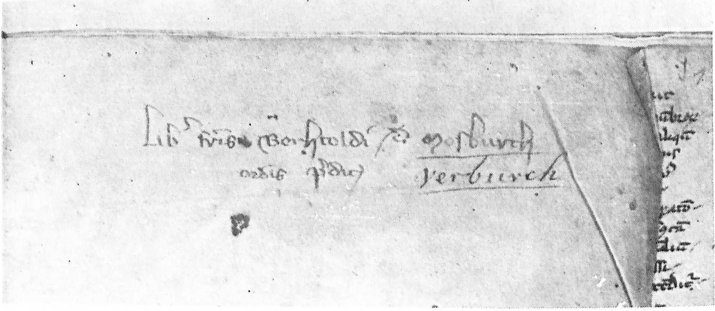 Berthold of Moosburg's ownership note on Albertus Magnus', De animalibus in Colon. W 258a endpaper.